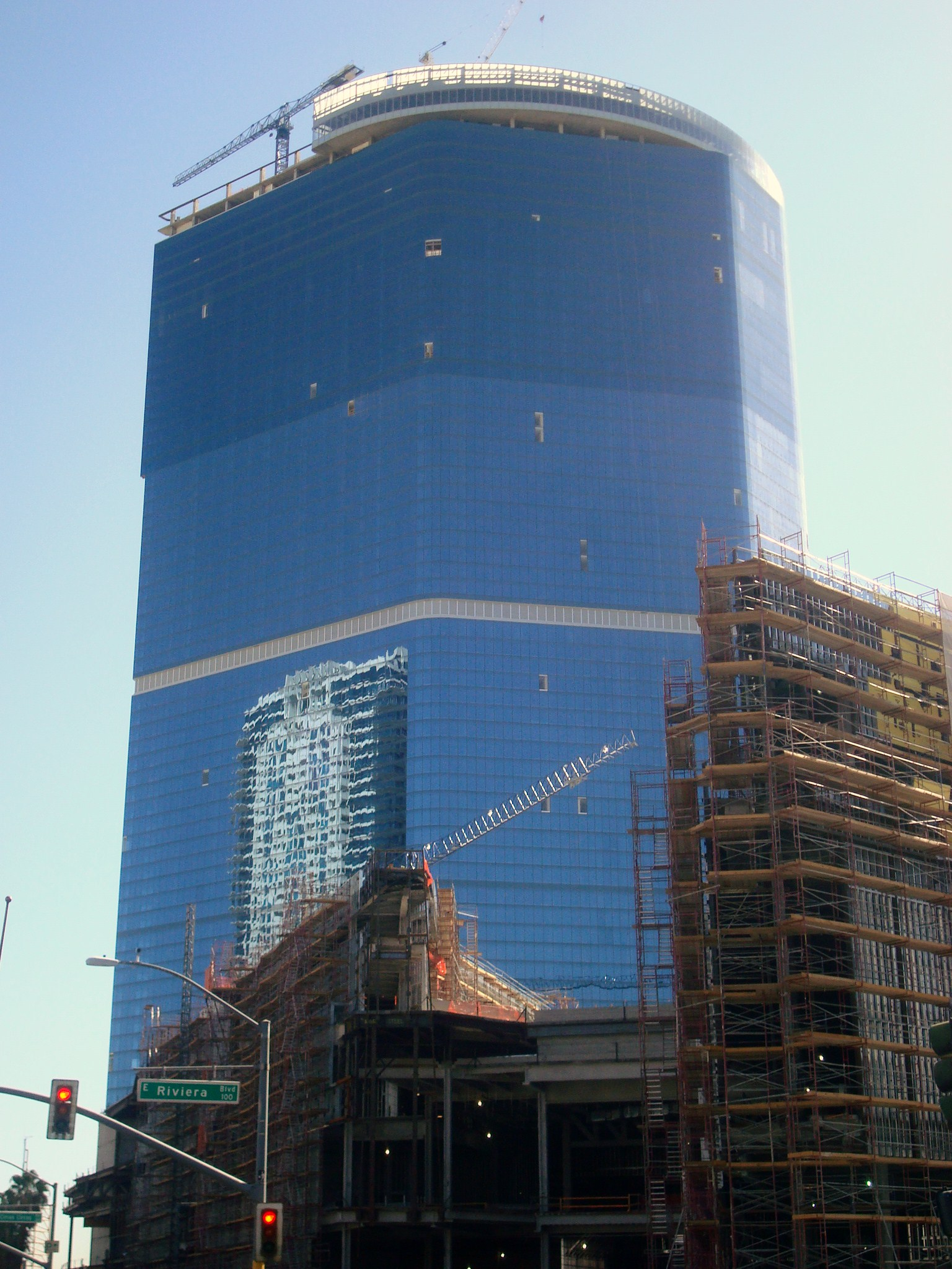 Fontainebleau Las Vegas